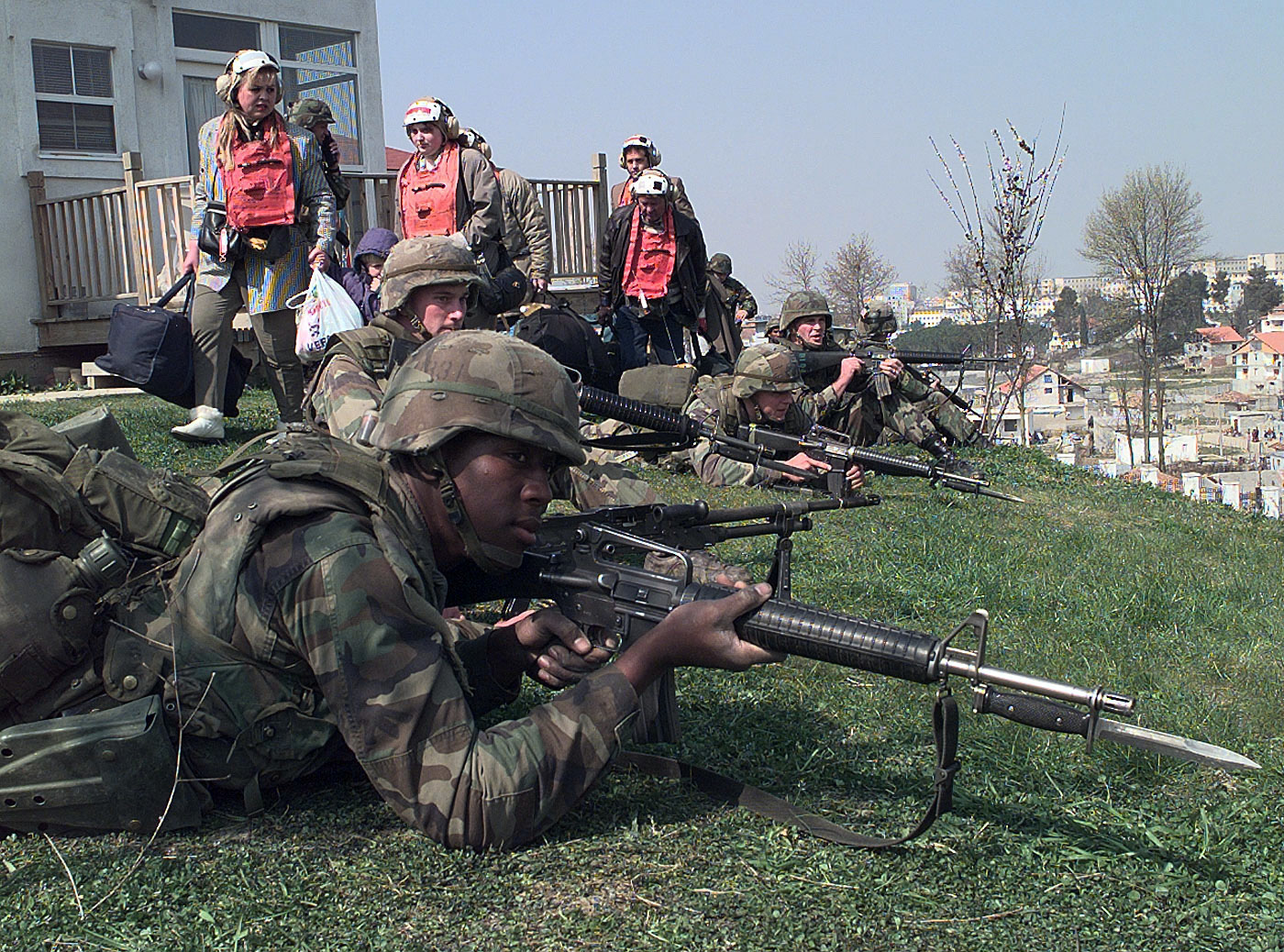 American citizens board a U.S. Marine Corps CH-53 Super Stallion combat assault helicopter in a field inside the U.S. Embassy housing compound in Tirana, Albania, on March 15, 1997. Operation Silver Wake is the evacuation of noncombatants from Albania to ensure the safety of American citizens and designated third country nationals. U.S. Naval forces from the USS Nassau (LHA 4) Amphibious Readiness Group continue to evacuate citizens from the U.S. Embassy in Tirana.